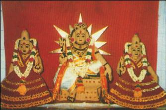 Moolasthanam of Nayakkar Chenai Iyanar Kovil